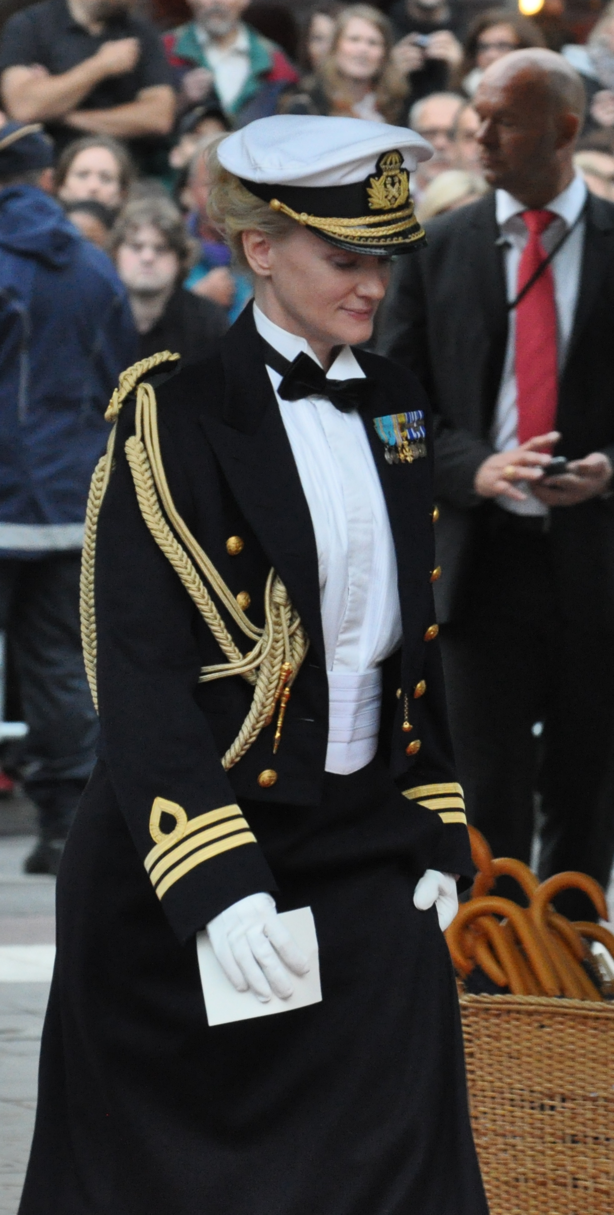 Lieutenant Colonel Lena Persson Herlitz at the wedding of Victoria, Crown Princess of Sweden, and Daniel Westling; Arrival of members for the Gouvernment and Swedish and foreign guests of hounour to the Riksdag's Gala Performance at Konserthuset